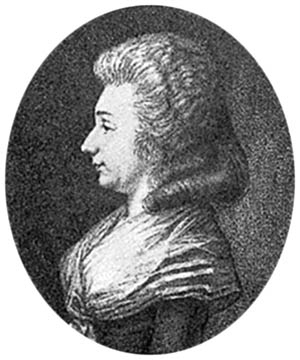 Portrait of Elisabeth Françoise Sophie de la Live de Bellegarde, Comtesse de Houdetot